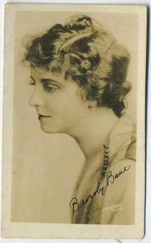 Real Photo Movie Card of Beverly Bayne